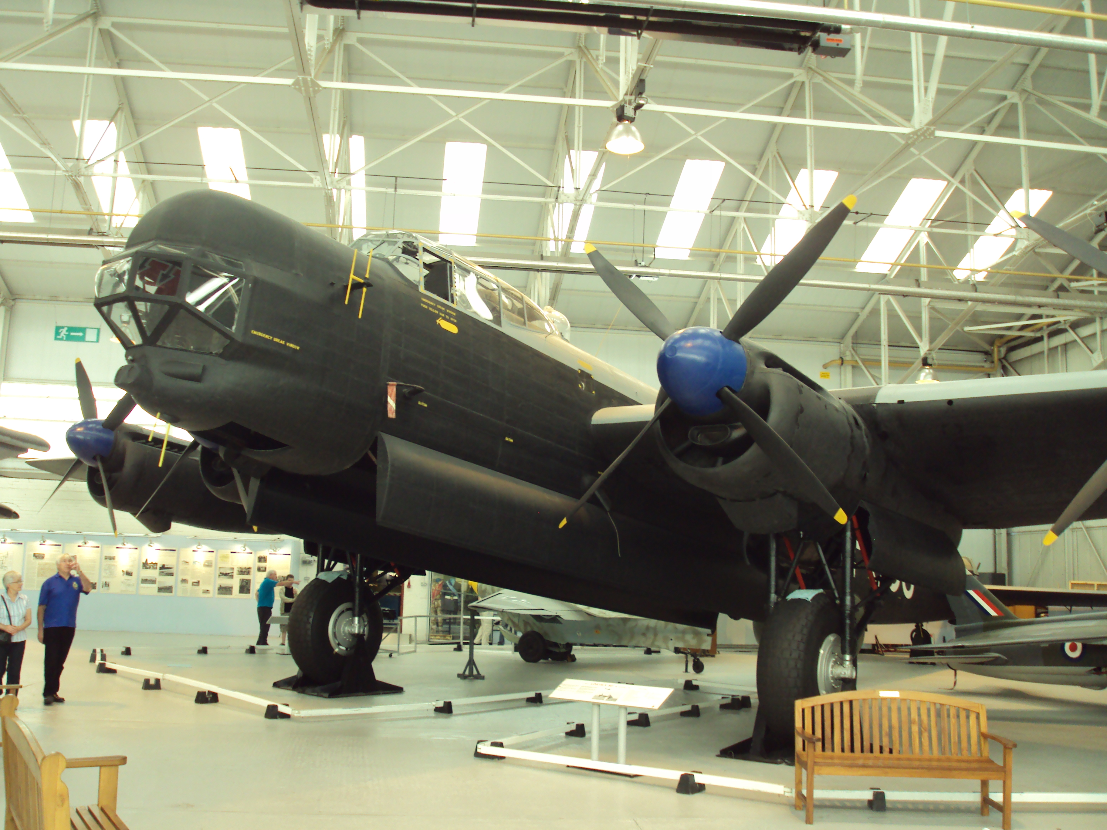 Photo of Avro Lincoln aircraft taken at the RAF Museum Cosford, Shropshire, England.